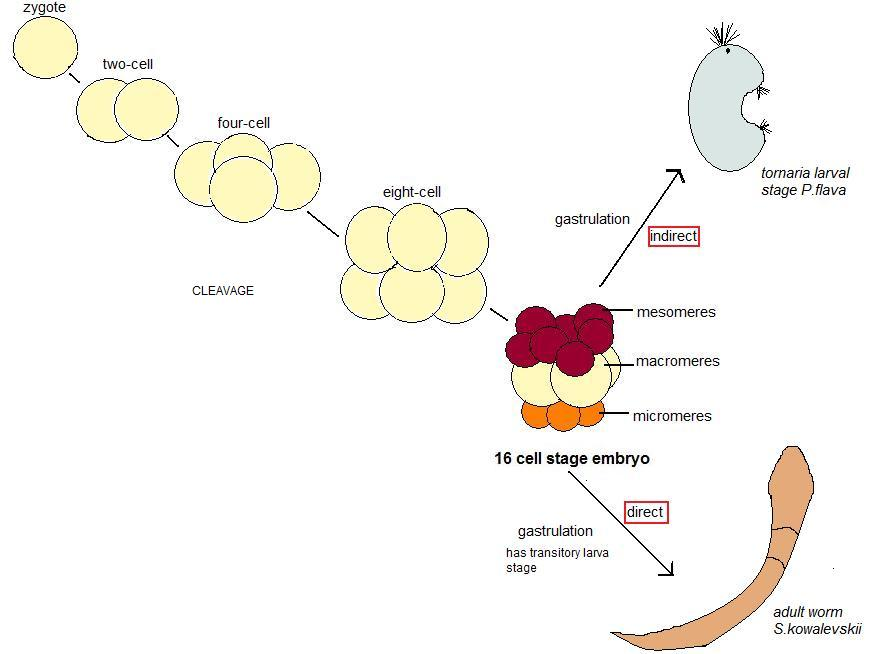 A general overview of embryonic cleavage in hemichordate development of indirect and direct developing marine worms Saccoglossus kowalevskii and Ptychodera flava